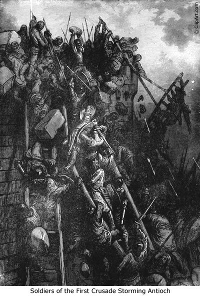 siege of Antioch by crusaders